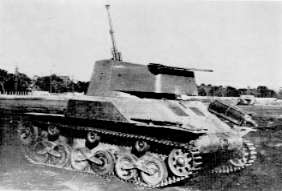 Imperial Japanese Army Ta-Se anti-aircraft SPG; a self-propelled anti-aircraft gun with a Type 98 20-mm gun